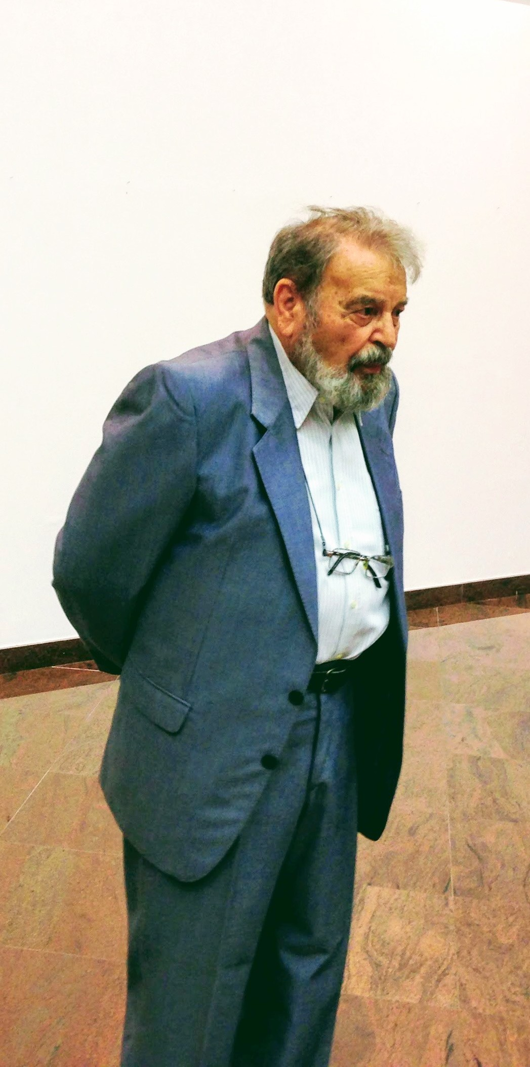 Vasilije Perevalov (1937). Sculptor from Niš, Serbia. Solo exhibition of the Gallery of the Home Officer in Niš, Serbia, 2017.10.03